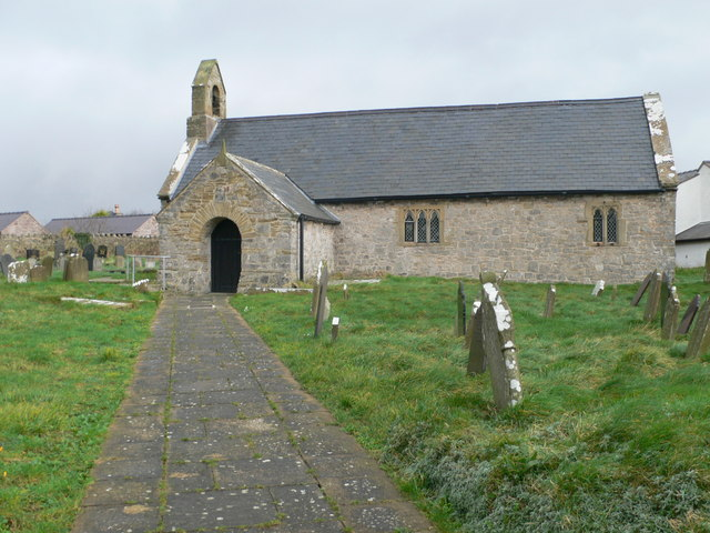 St Mary Magdalene parish church, Gwaenysgor, Flintshire